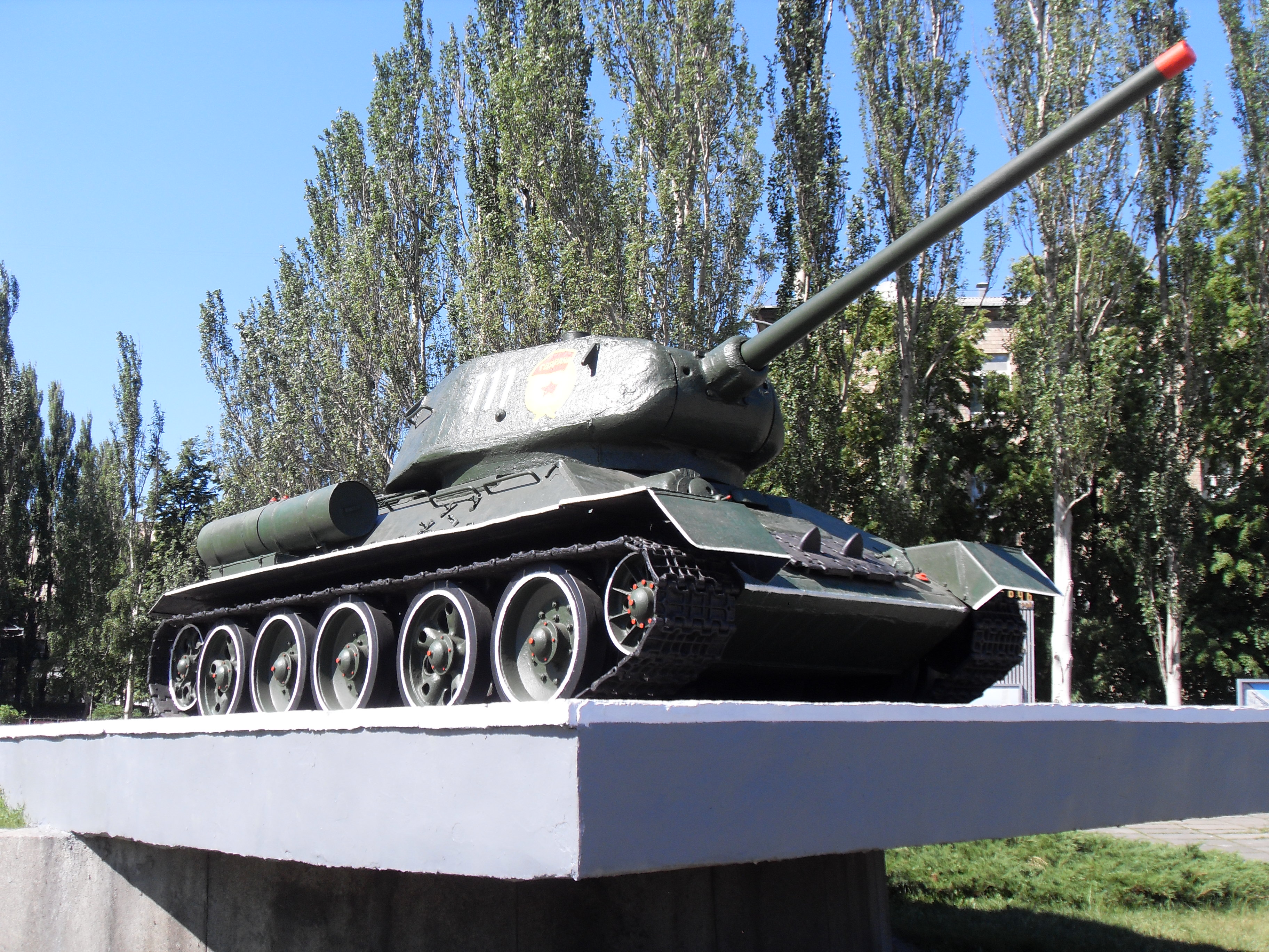 T-34 tank monument near the metro station Shulyavska. The tank T-34, placed on a concrete strip whit the inscription "In memory of the soviet tank soldiers who liberated Kiev", was installed on the 3rd November 1968 to commemorate the 25th anniversary of the liberation of Kiev from the Nazi invaders. On the right side of the tank, it can be read the inscription "To our soviet motherland!!!" (за нашу советскую родину!!!, sa nashu sovjetskujo rodinu). The tank is located at the Peremohy Avenue (also Prospekt Pobedy, проспект победы which means Victory avenue), next to "Shulyavska" (шулявська) metro station.